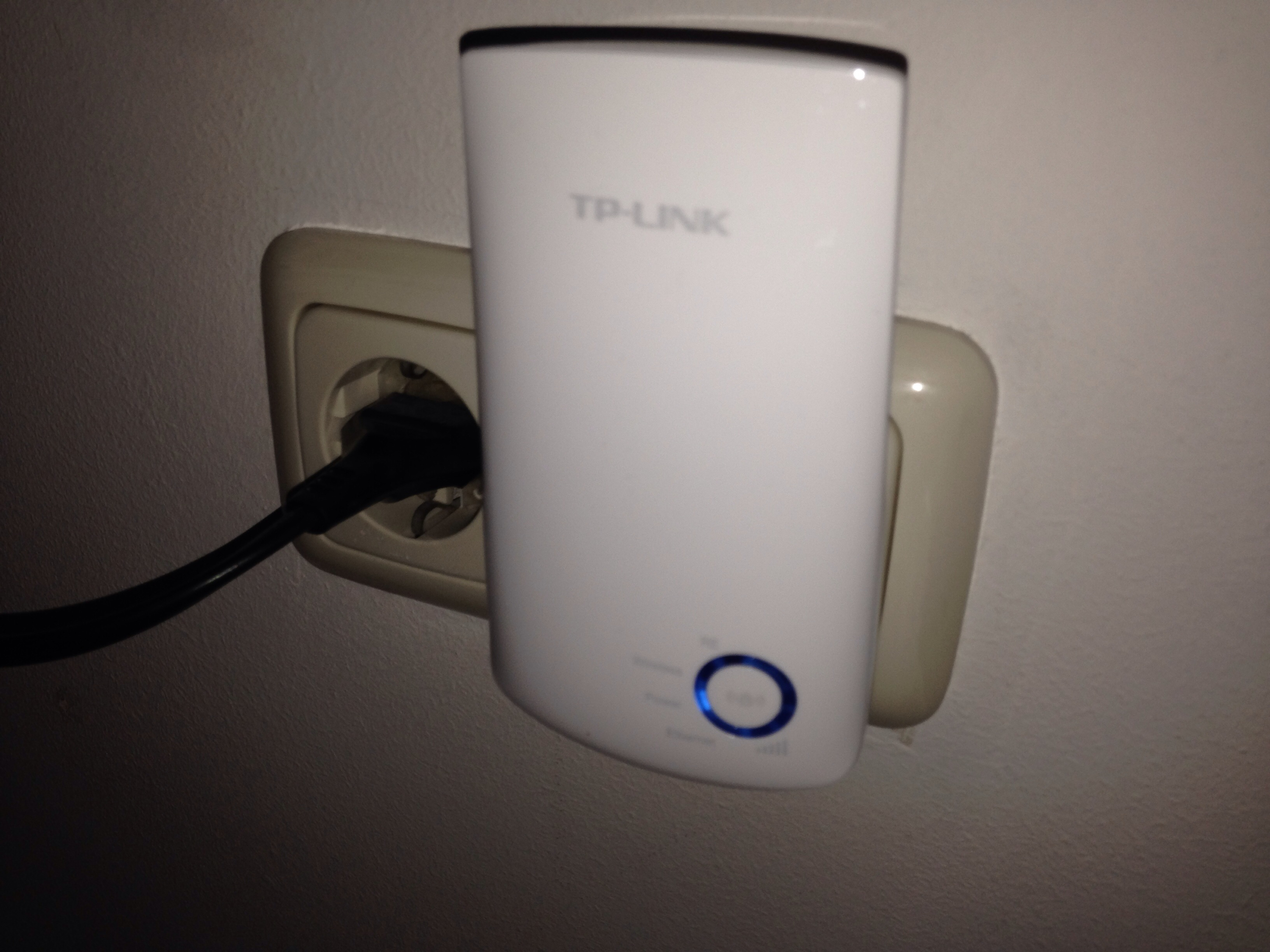 Wlan Repeater